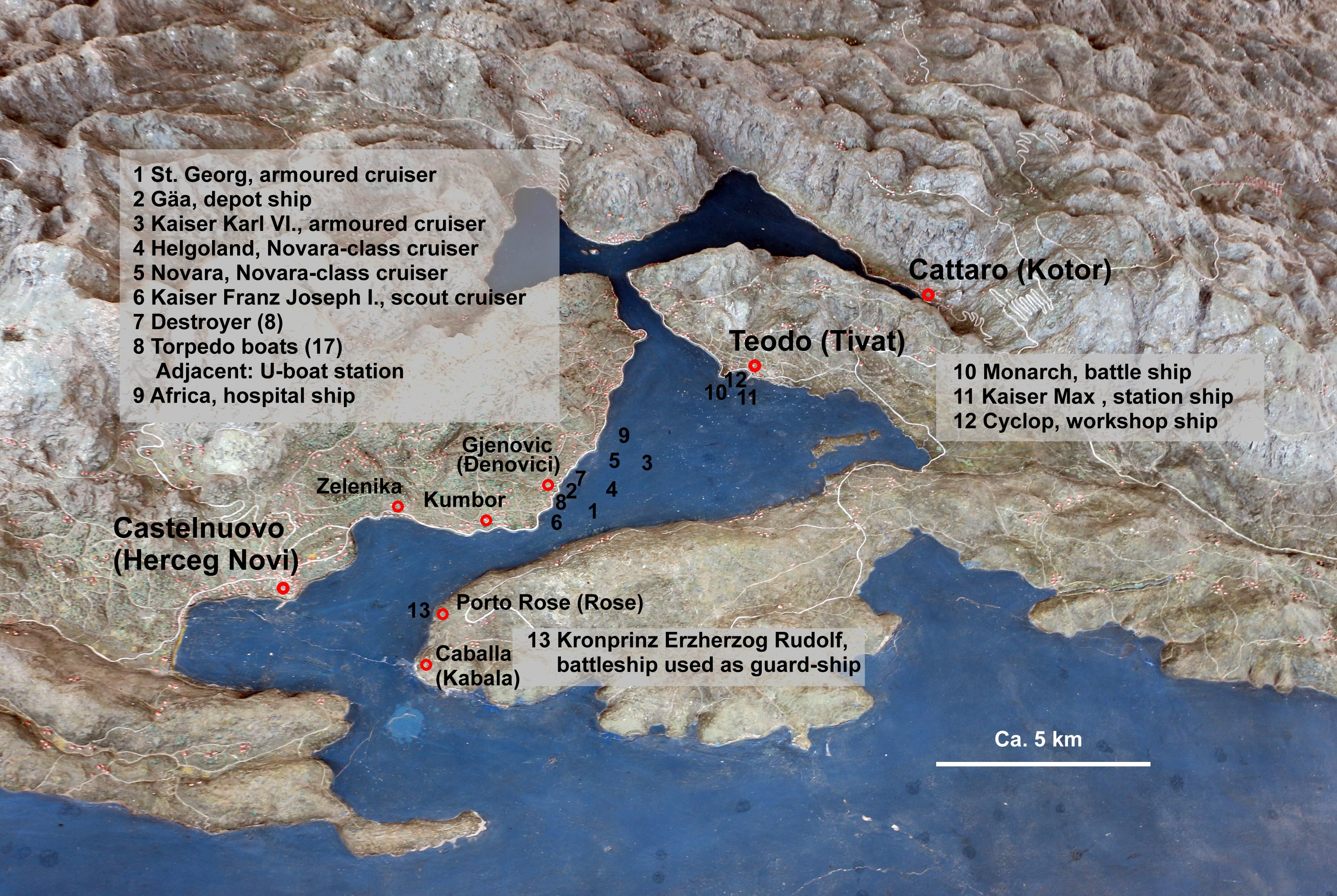 Picture prepared by Klaus Kuhl (kuhl-k) based on „Carta geografica in rilievo del montenegro, 1917, 04 bocche di cattaro.JPG“ (Wikimedia) and information from: Richard, G. Plaschka: Cattaro – Prag. Revolte und Revolution. Kriegsmarine und Heer Österreich-Ungarns im Feuer der Aufstandsbewegungen vom 1. Februar und 28. Oktober 1918. Graz 1963.